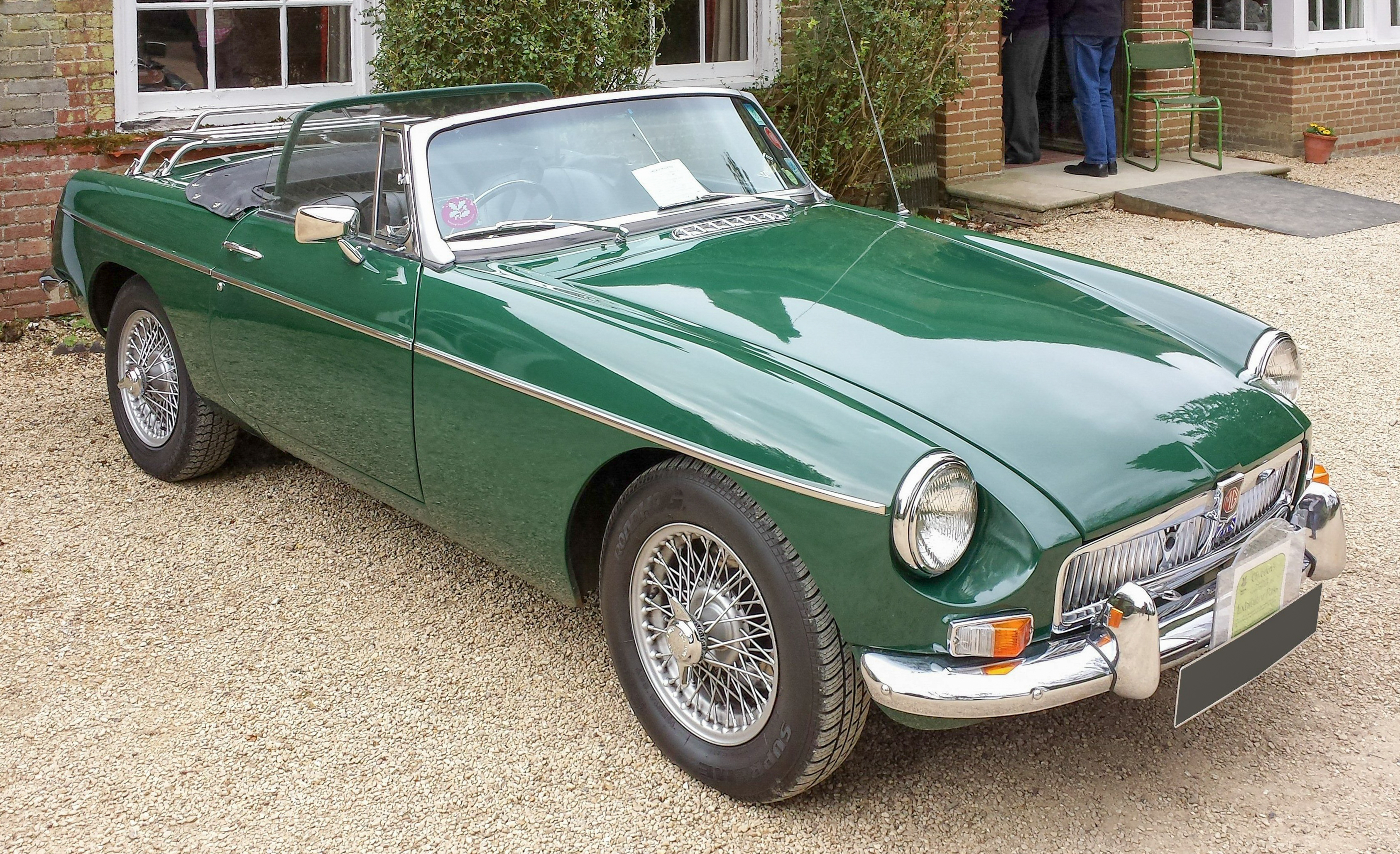 A 1969 MG MGB MkII open roadster. This car was photographed at Nuffield Place, the former home of William Morris, the founder of Morris Motors and Morris Garages (MG).